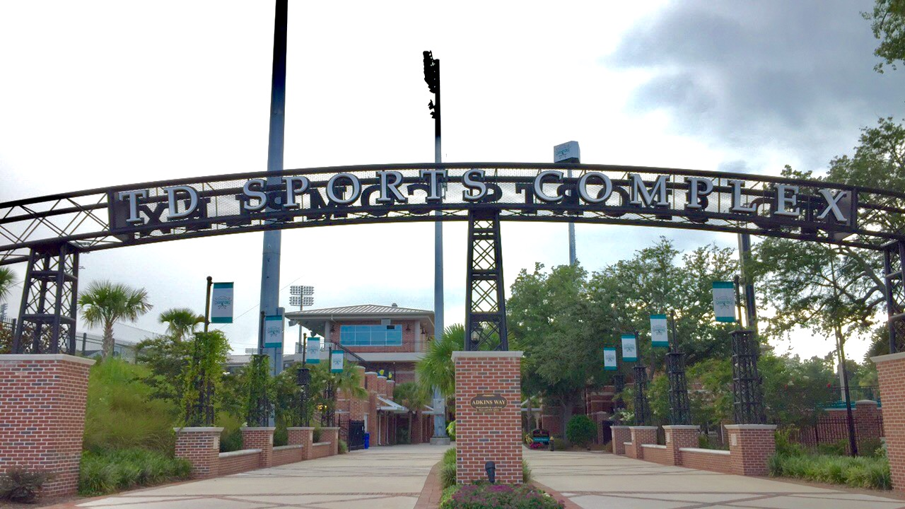 The TD Sports Complex and Springs Brooks Stadium at Coastal Carolina University in Conway, South Carolina, US.